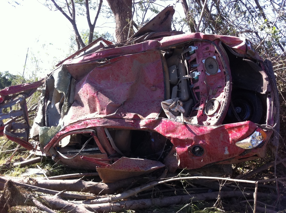 A red car that has been thrown against a stand of trees by an EF5 tornado near Philadelphia, Mississippi on April 27, 2011, one of four EF5 tornadoes that day.